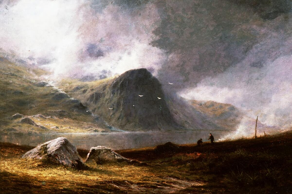 A painting from the Framed Works of Art collection at the National Library of wales.